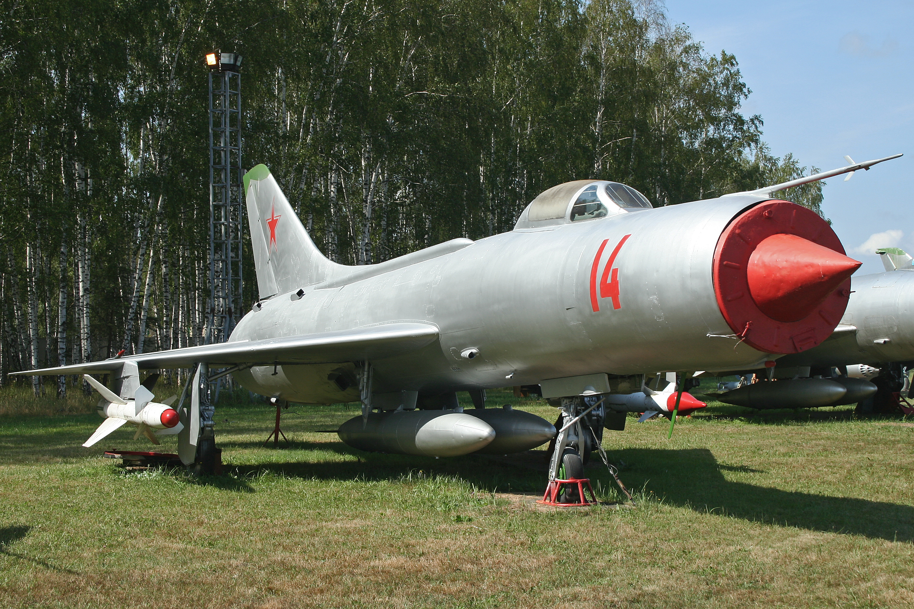 Developed from the Su-9 with a larger nose to accommodate more powerful radar and engine, the Su-11 was immediately outclassed by types like the Su-15, and only 108 were built. Amazingly, having entered service in 1964, the final aircraft weren't withdrawn until 1983! Sadly, only two now exist, the other one currently being stored at the former museum in Khodynka, Moscow. This example was previously coded '15 green'. c/n 0115307. On display at the Russian Air Force Museum. Monino, Russia. 13-8-2012